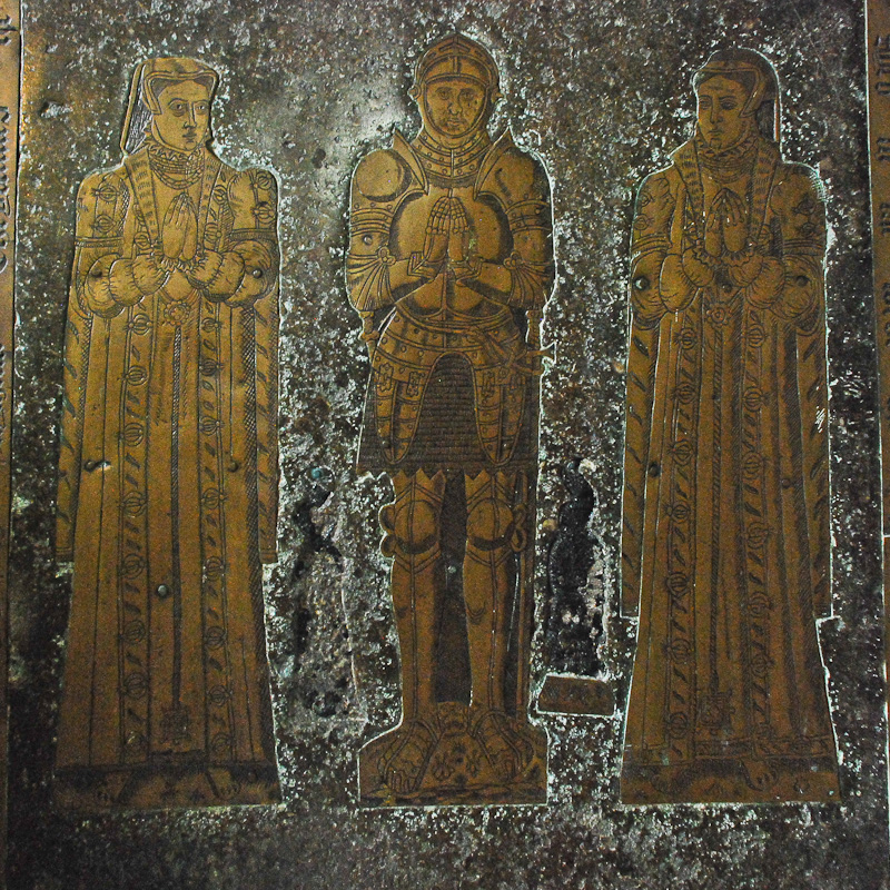 Monumental brass in st Andrew's Church, Stratton, Cornwall, of Sir John IV Arundell (1495–1561), known as "Jack of Tilbury", an Esquire of the Body to King Henry VIII whom he served as Vice-Admiral of the West. He was knighted at the Battle of the Spurs in 1513. In 1523 he achieved notability by the capture of a notorious pirate. He served twice as Sheriff of Cornwall, in 1532 and in 1541. Brass now stands against the west wall of the church, slab originally formed top of a chest tomb. See also drawing c.1882 File:SirJohnIVArundell OfTrerice Died1561 StrattonChurch Cornwall.PNG